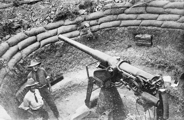 Two unidentified officers standing beside an anti aircraft gun at the top of a valley near Shrapnel Gully, Anzac on the Gallipoli Peninsula. The QF 12 pounder 12 cwt gun is mounted on a carriage garrison mount. Comment : This example lacks the spring recuperator usually fitted above the barrel when used as an anti-aircraft gun. The gun arrived at Anzac shortly after 9 September 1915 after a request for anti-aircraft guns. Place made: Turkey: Dardanelles, Gallipoli White's Valley